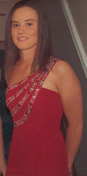 Leona Maguire, golfer